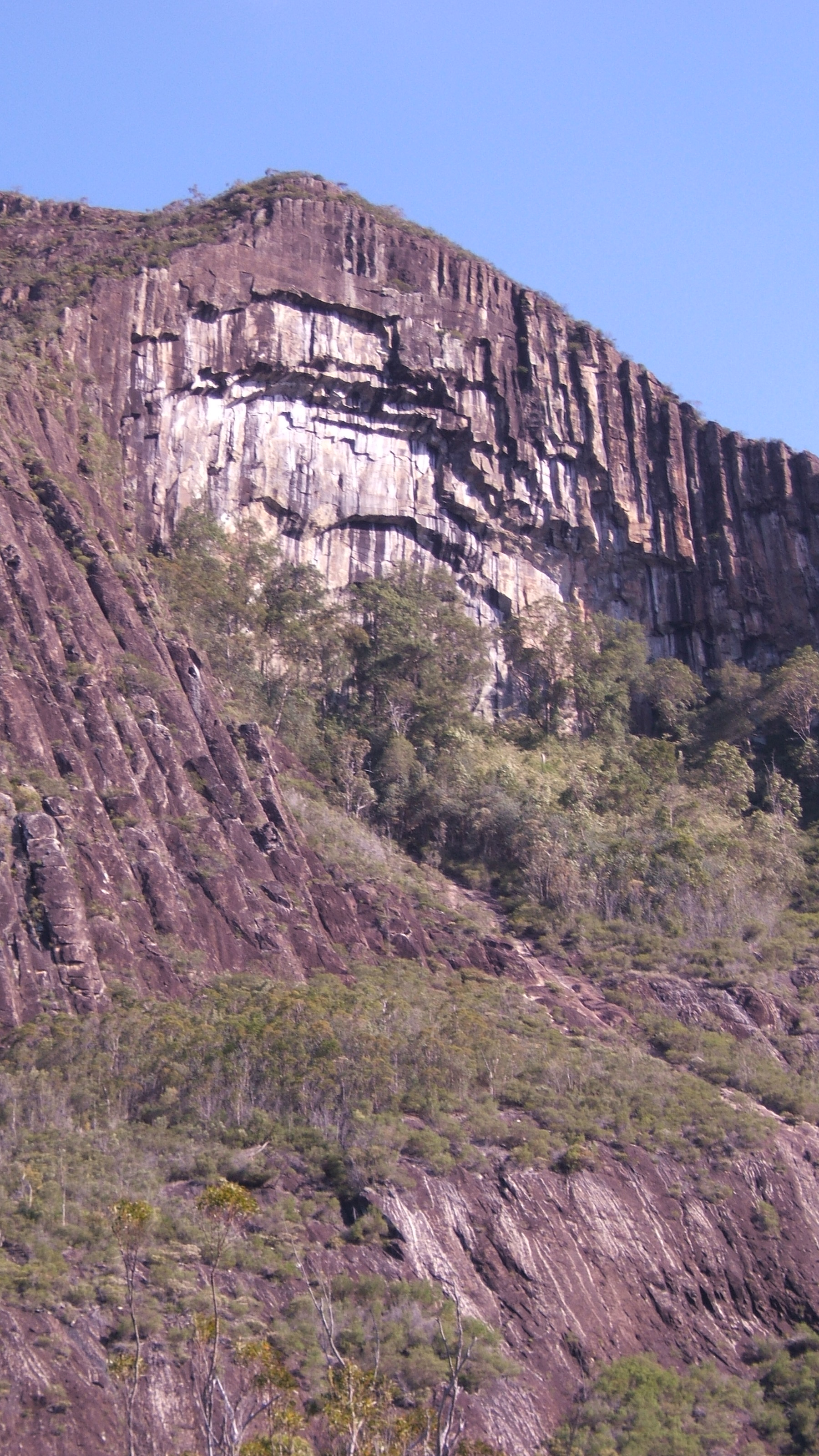 Mt Beerwah. Taken from the cliff face lookout. Glass House Mountains National Park, Queensland, Australia.